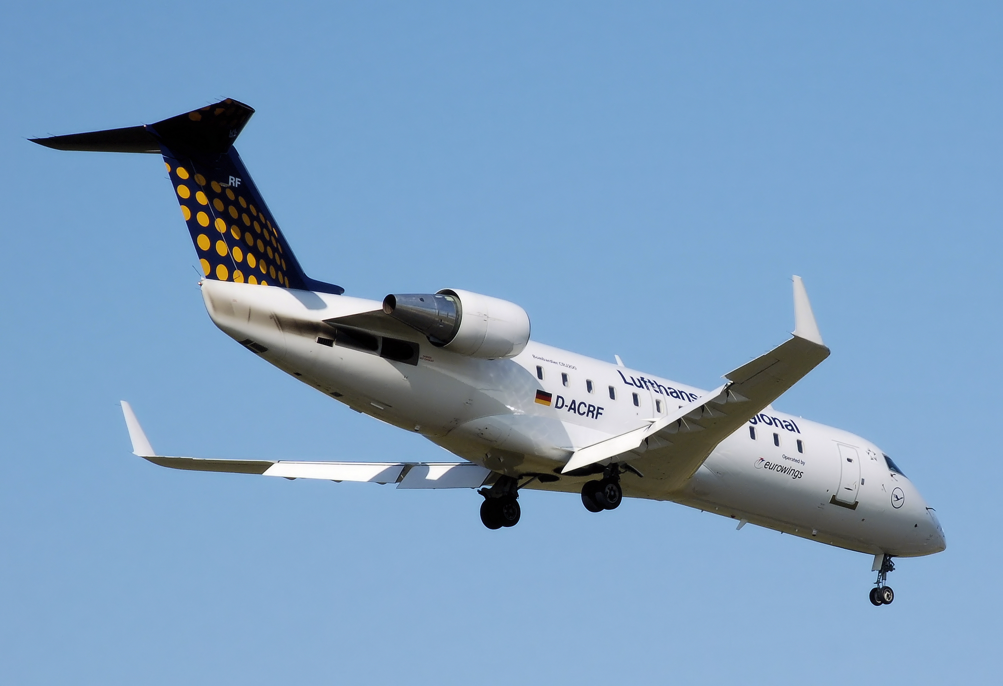 Bombardier Regional Jet CRJ-200 lands at Birmingham International Airport, England.